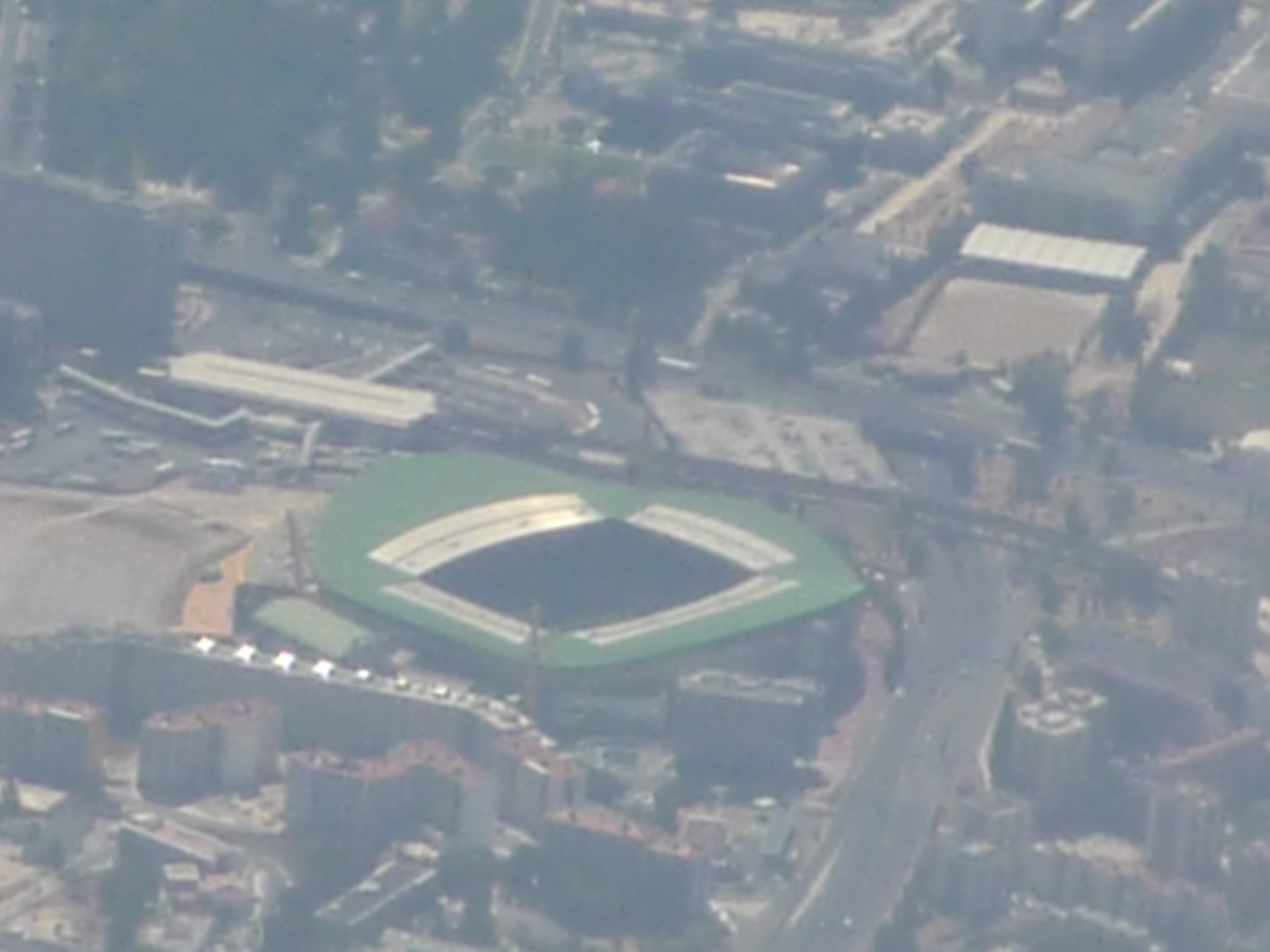 estadio alvalade